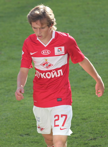 Zhano Ananidze